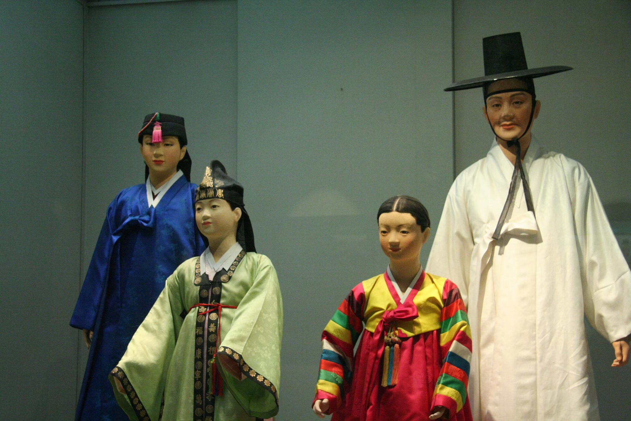 Models of a Korean family in hanbok, traditional costume during the late Joseon period have been displayed at National Folk Museum of Korea, Seoul, South Korea.